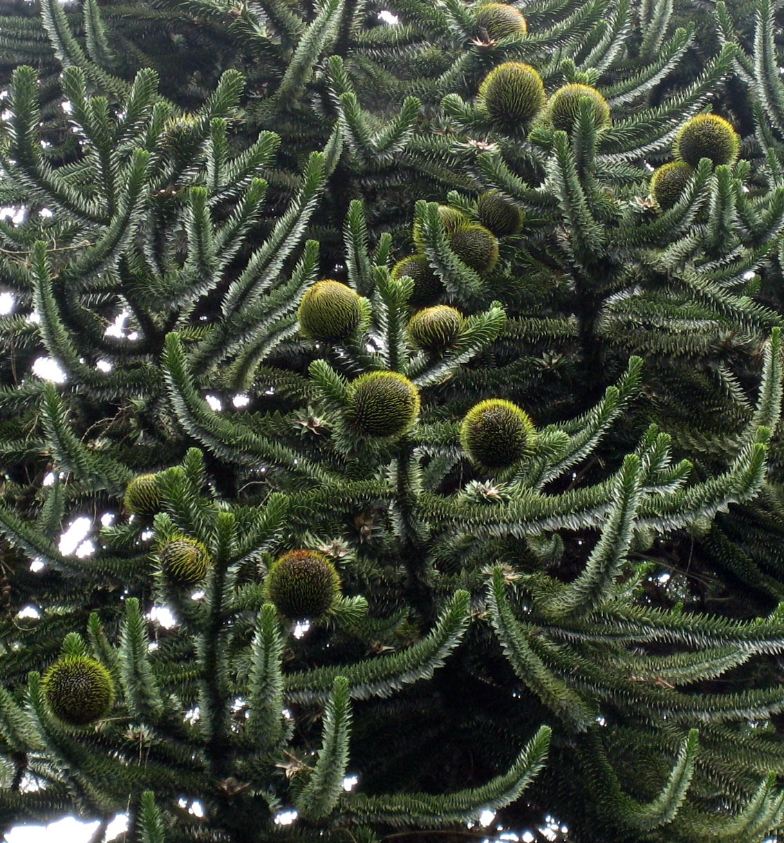 Araucaria araucana female cones. Cultivated, Kyloe Wood, Northumberland, UK